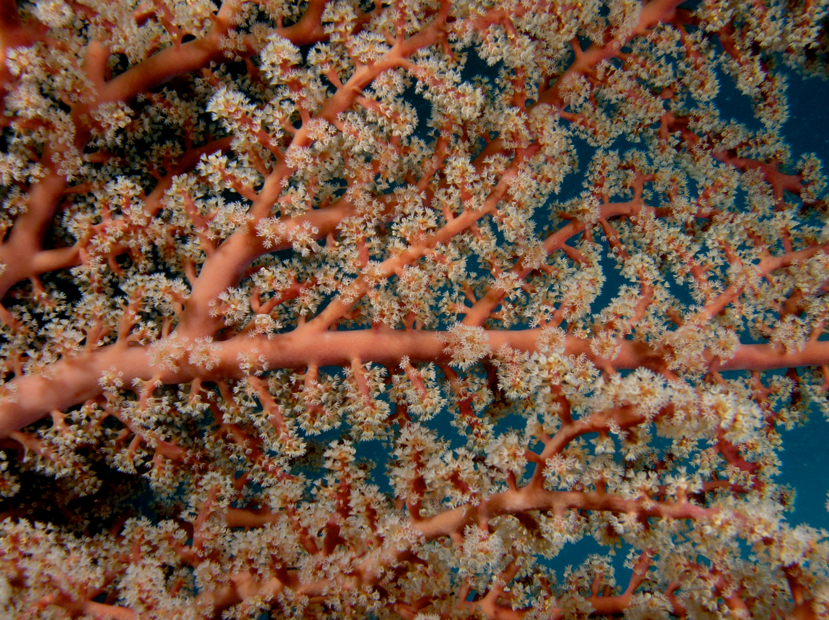 Siphonogorgia godeffroyi (Pink soft coral)